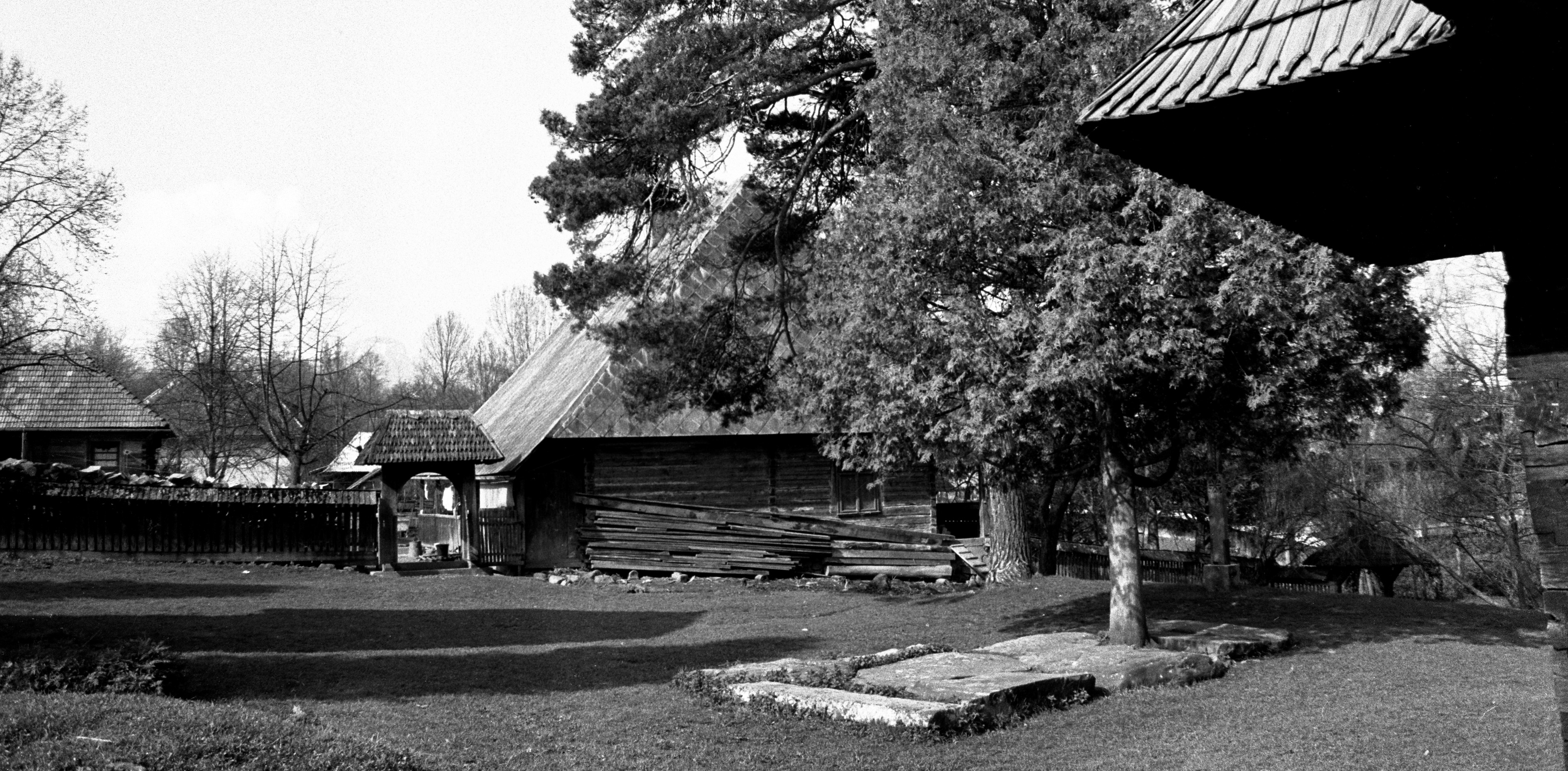 Breb, Maramureş county, Romania: the wooden church, churchyard. 02